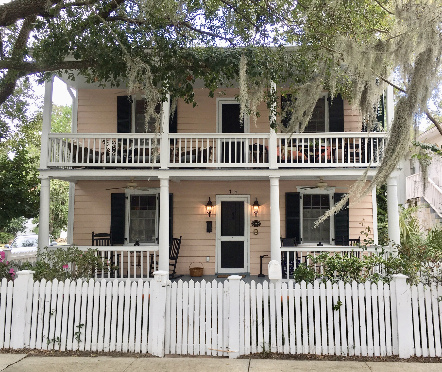 Beaufort Historic Landmark District contributing building, Site # U-13-1013, Beaufort SC, The Commons, 713 Charles Street, ca 1870, Low Country Cottage, 2 over 2 with double tiered porches.